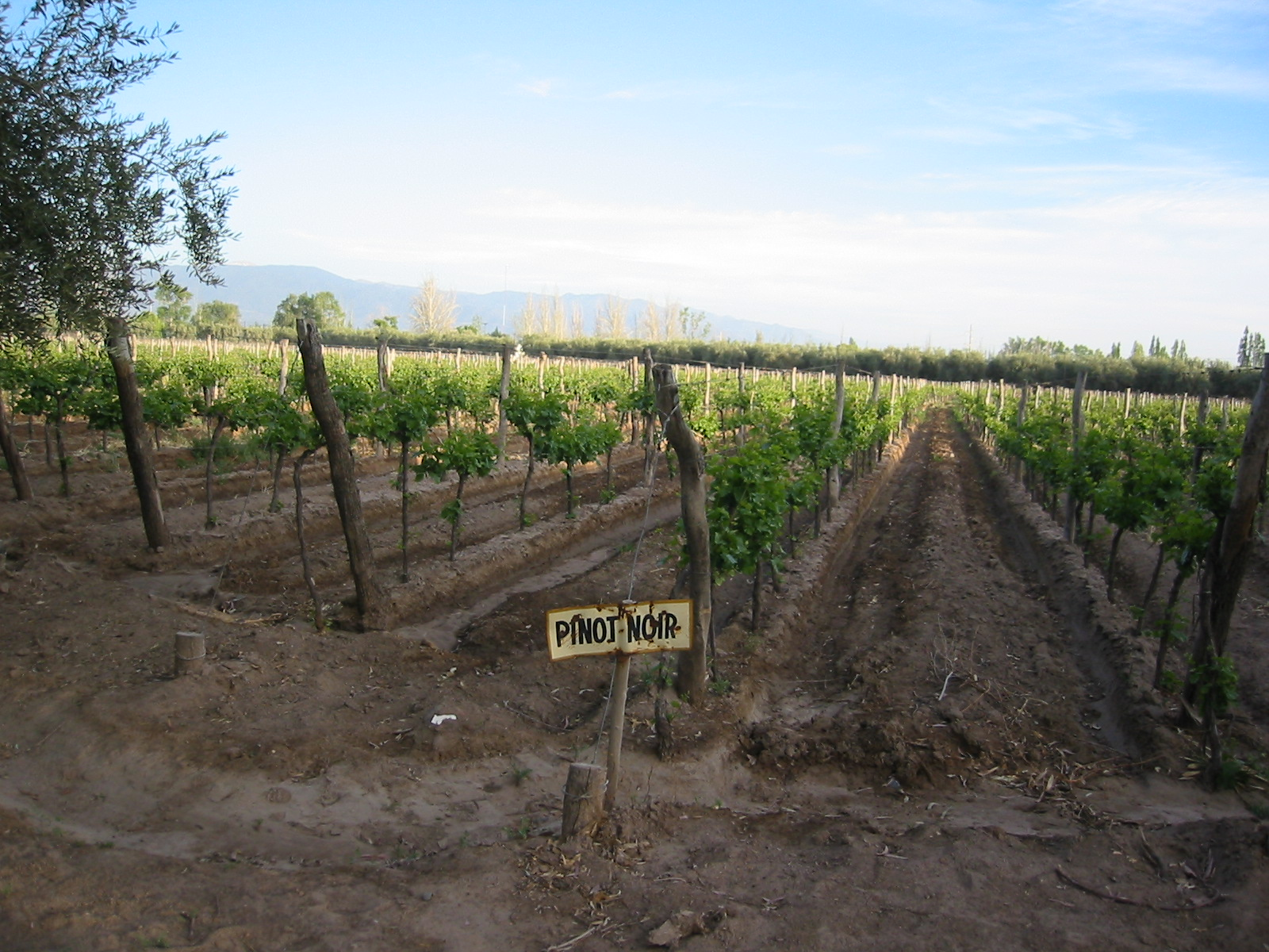 Pinot noir vines growing in the Argentine wine region of Mendoza